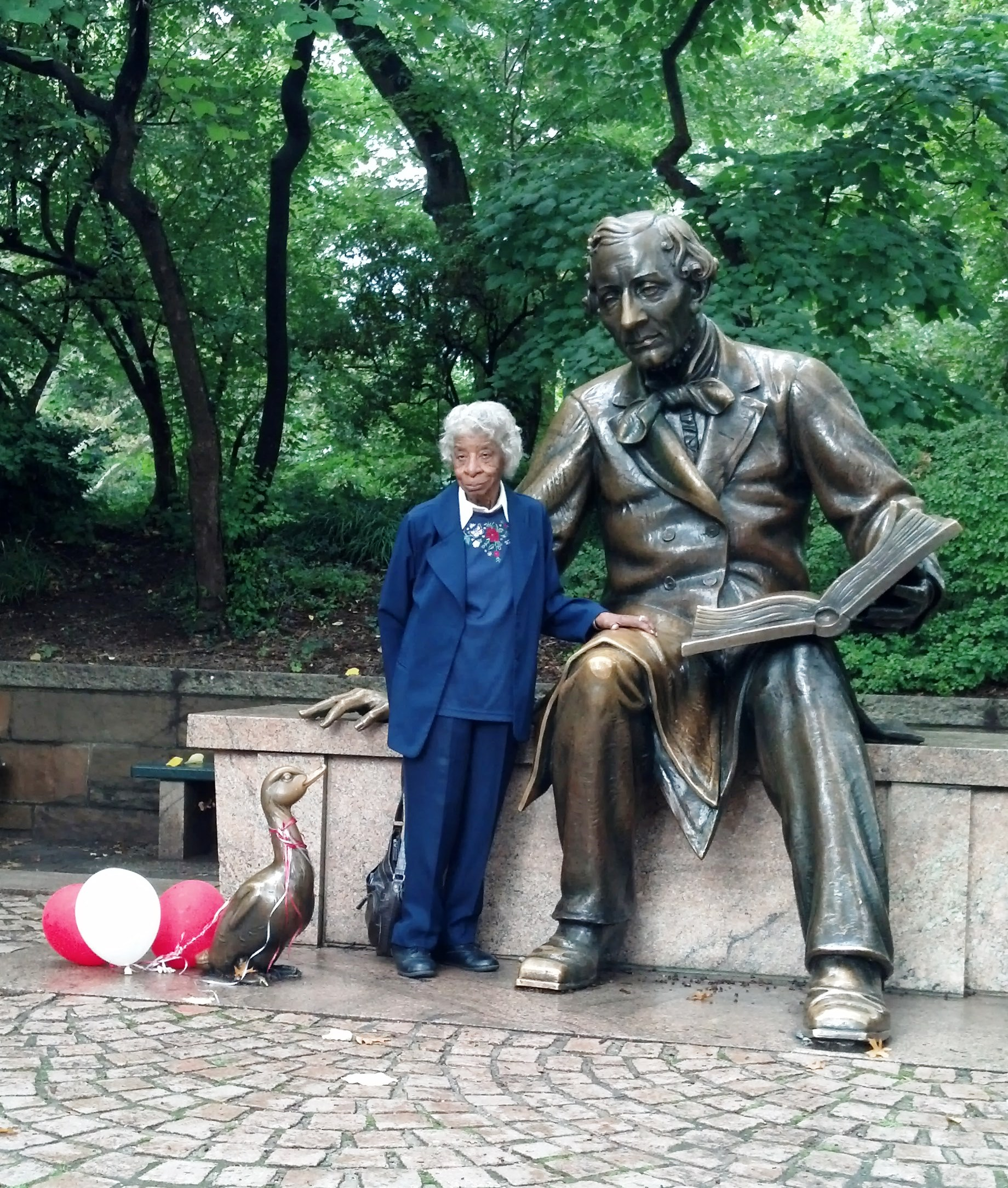 Henrietta Smith at Hans Christian Anderson Statue in Central Park